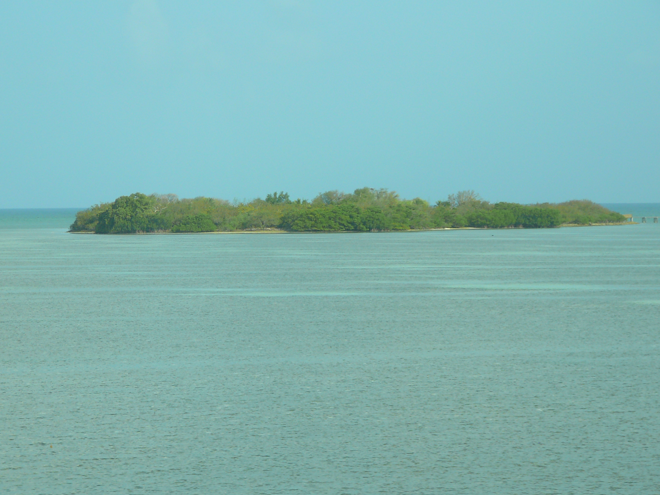 Digital photo taken by Marc Averette. Indian Key in the Florida Keys